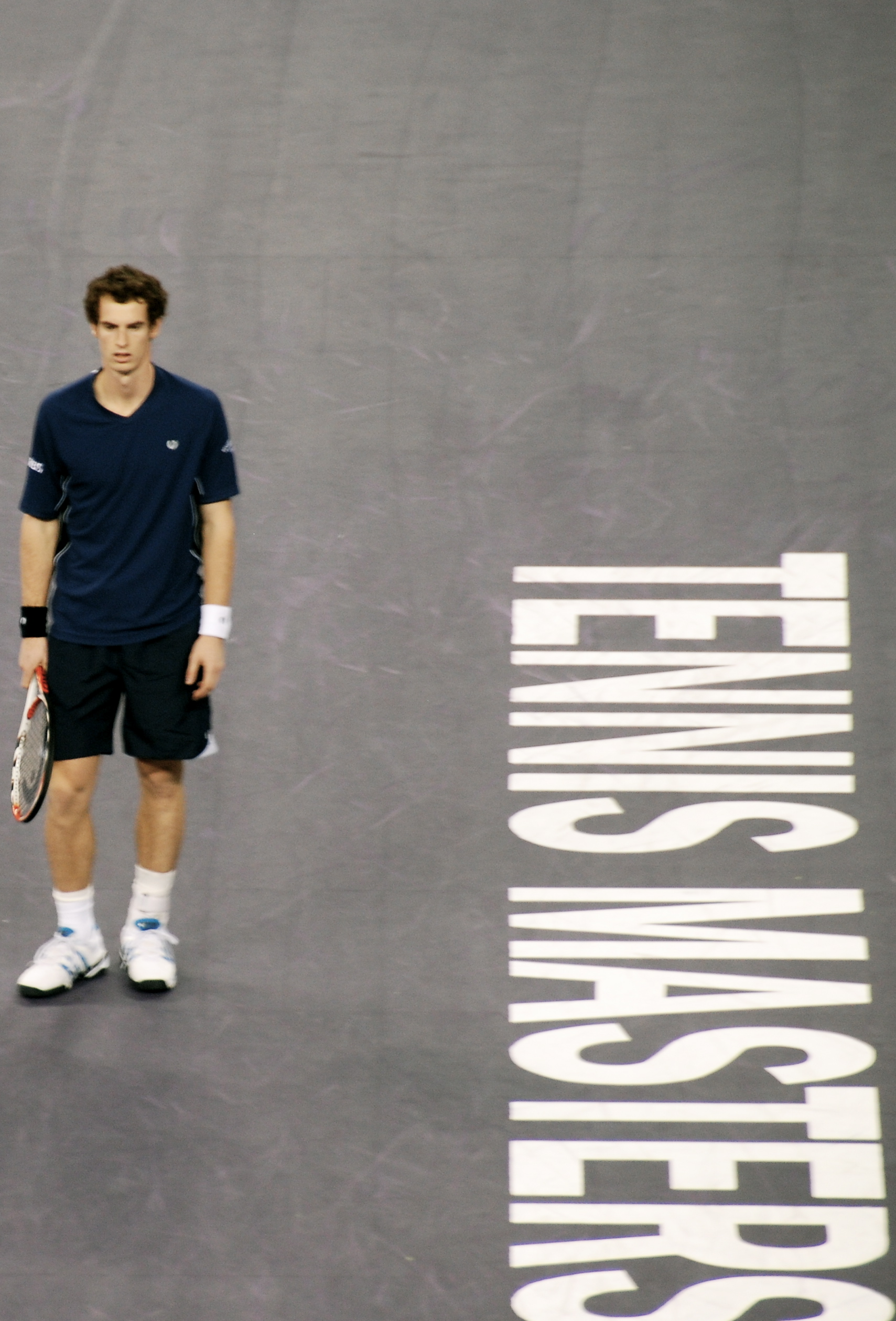 Andy Murray at the 2008 Tennis Masters Cup